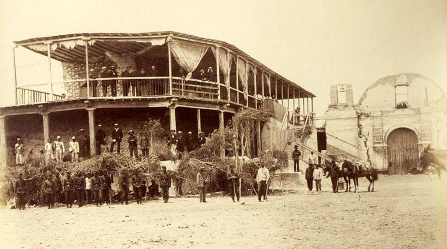 Cuartel general del ejército chileno en la Hacienda San Pedro de Lurín...Para inicios de enero de 1881, la concentración de tropas chilenas en el valle de Lurín había alcanzado su máximo rango haciendo claro que la batalla por Lima se libraría al sur de la capital peruana, en los campos de San Juan y Chorrillos... Reentrega del estandarte al 2° de Linea, encontrado despues de la toma del morro de Arica.